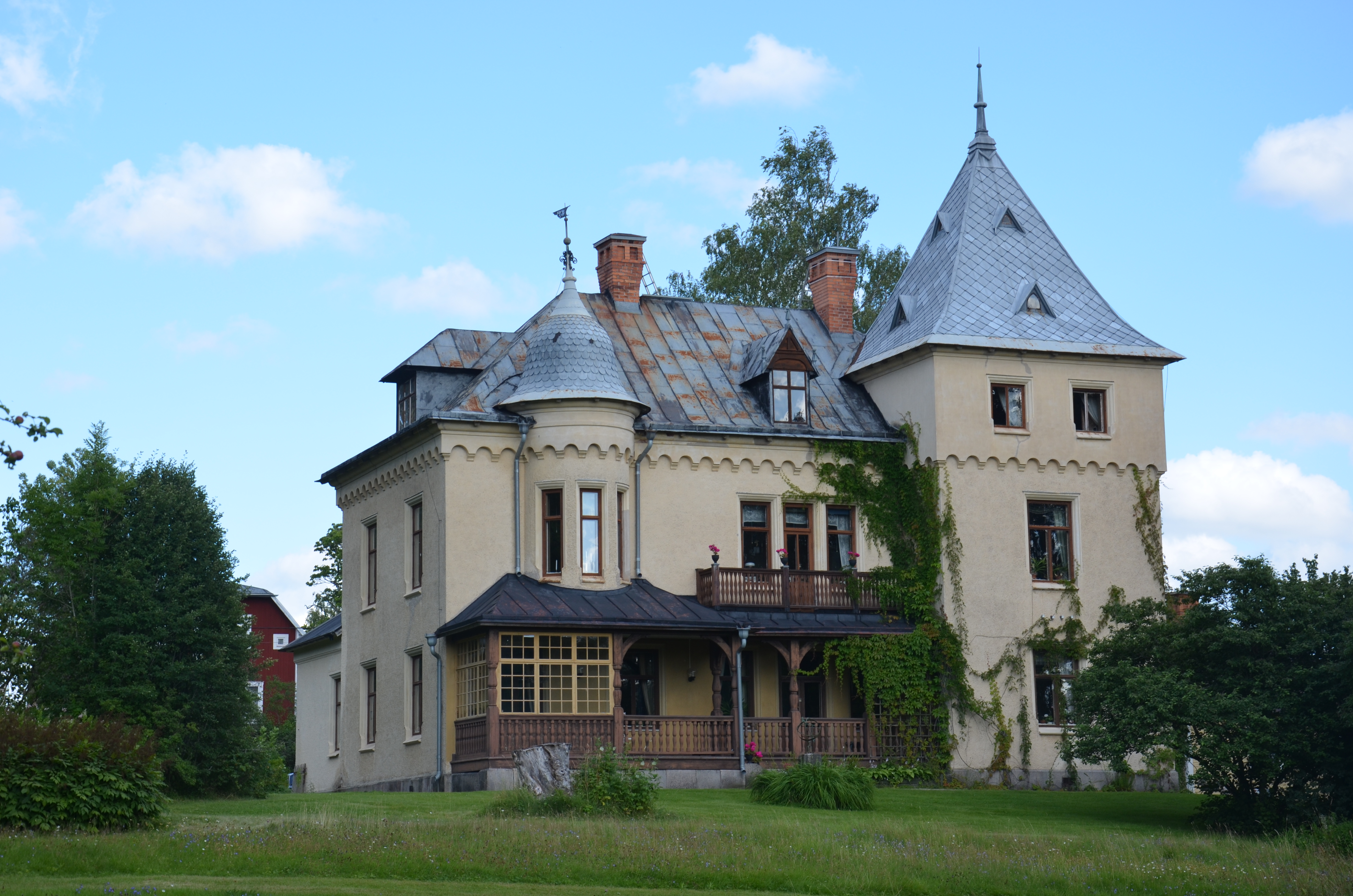 Odensnäs, Västervåla, Ängelsberg, Sweden